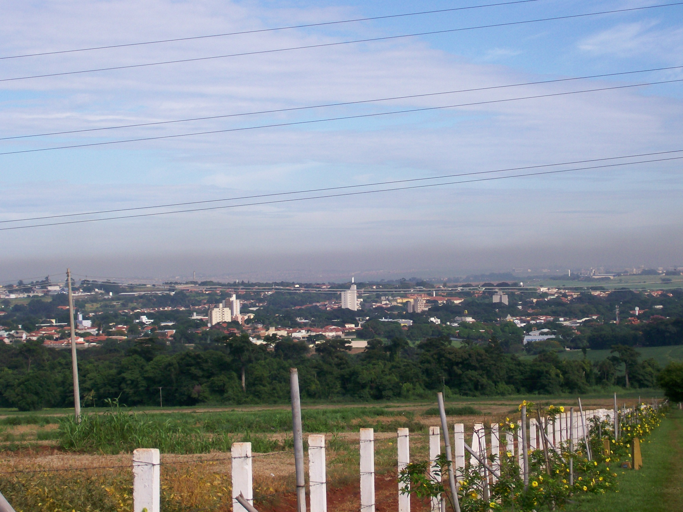 Barão Geraldo as seen from outer part of State University of Campinas